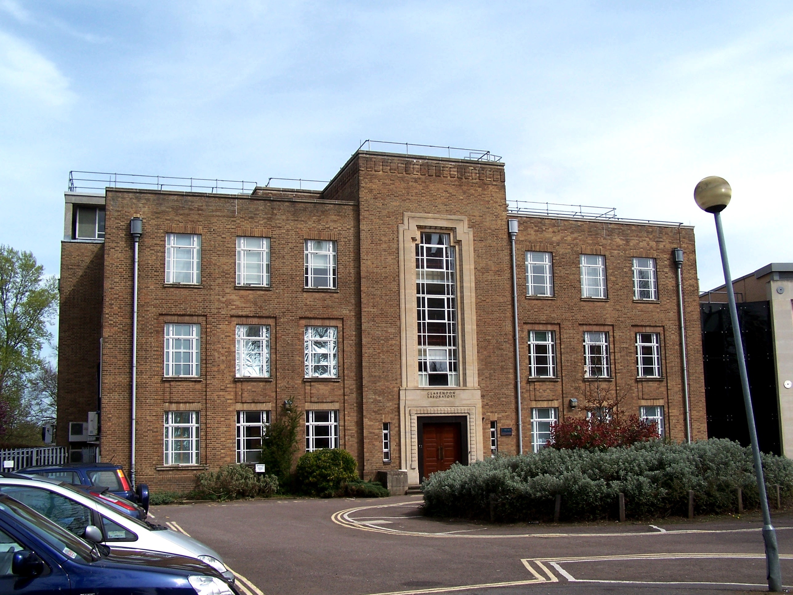 The Clarendon Laboratory Lindemann Building, home of the Physics Department, University of Oxford, England.